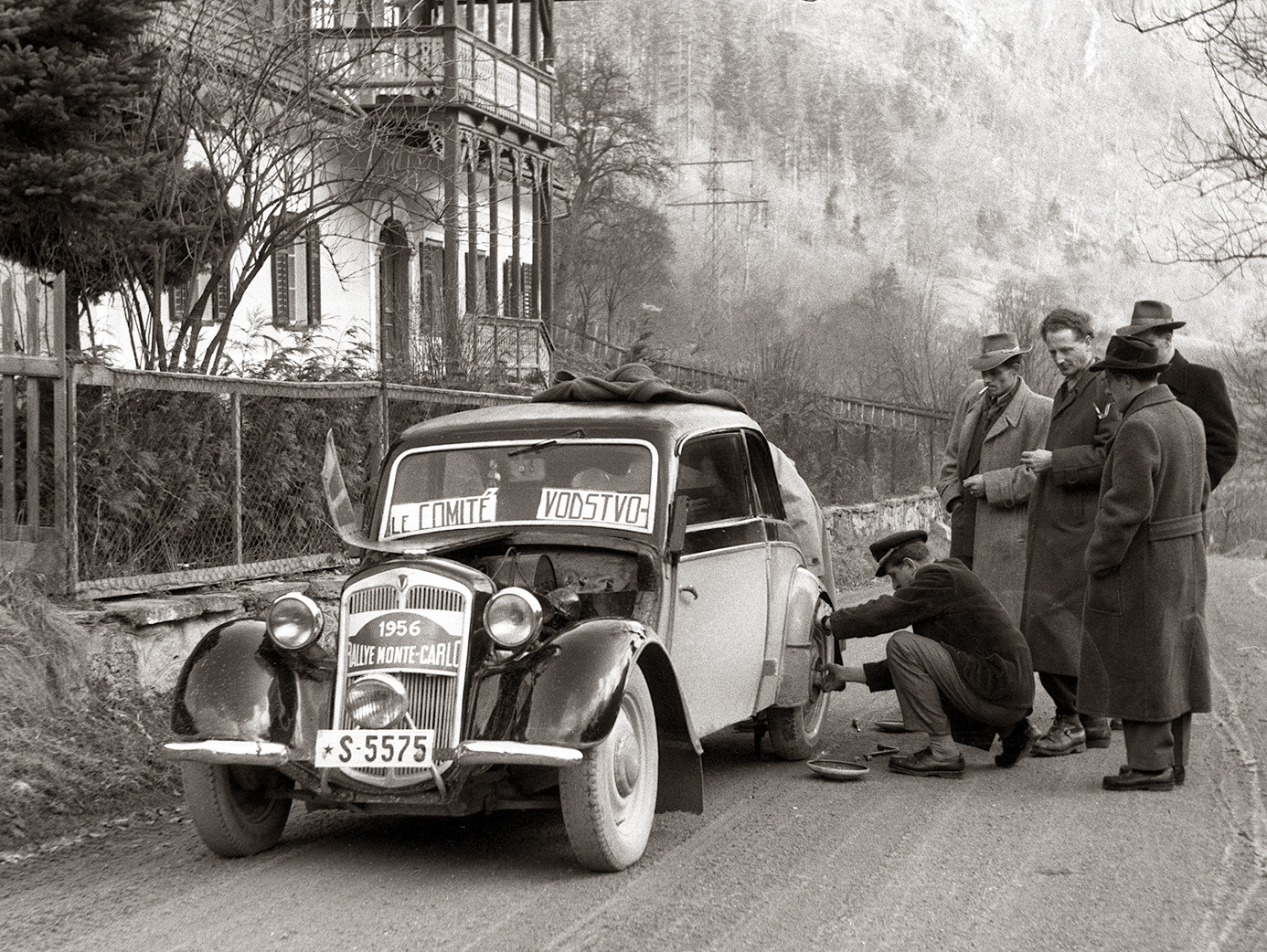 DKW F8 in Dravograd in Slovenia, slovenic license "S 5575", apparently in the Rallye Monte Carlo, but the sign is not one of the official Monte Carlo plates issued by the organizer (these plates had the starting number on it), so who knows. There were three DKWs starting in Athens in 1956, but probably of a newer type.[1]. Dravograd is a town between Zagreb and Klagenfurt, which were on the route for those starting in Athens.